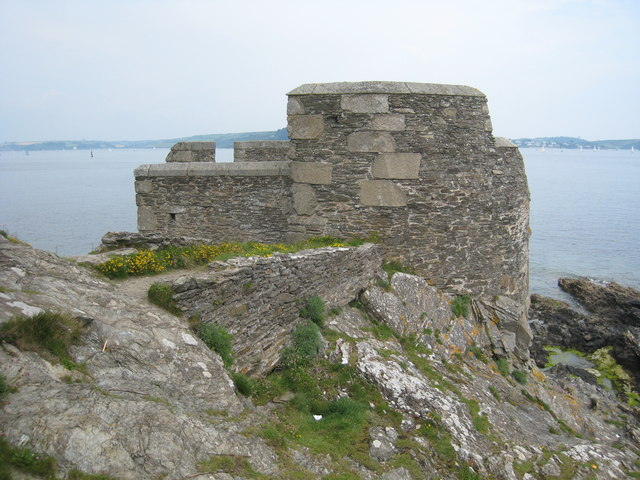 Little Dennis Blockhouse on Pendennis Point Part of Henry VIII's defences of the harbour at Falmouth. More information here